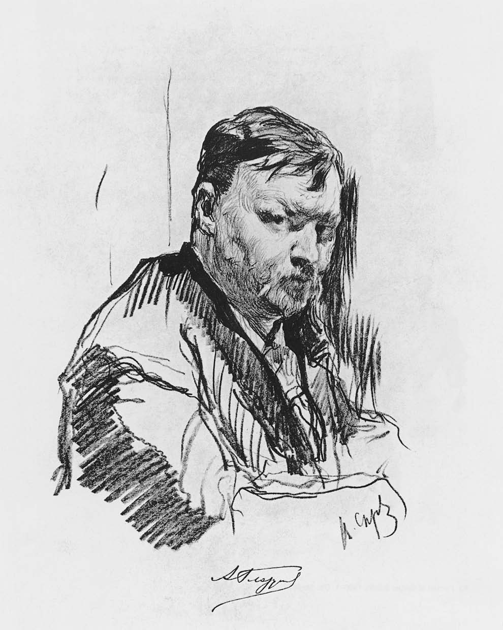 Portrait of the Composer Alexander Glazunov. 1899. Lithograph. The Russian Museum, St. Petersburg, Russia.